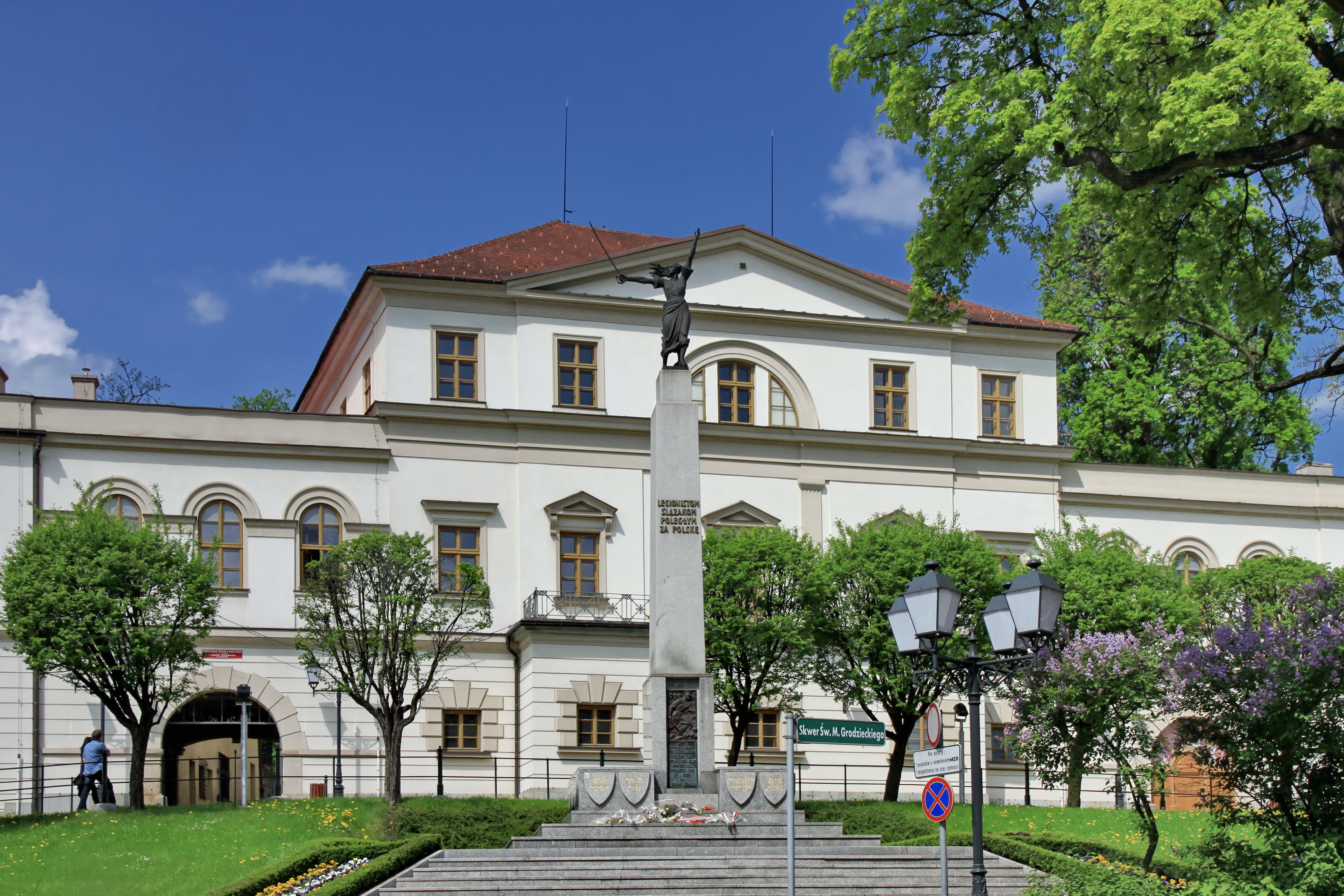 Cieszyn, Hunting Palace of the Habsburgs, now State School of Music, build in 1840